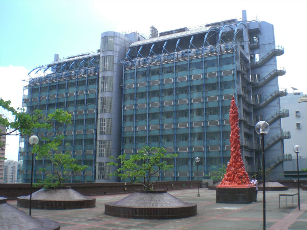 Description= 高志活Pillar of Shame in 橙色運動The University of Hong Kong，HKU Source=self-made Author= PSH851